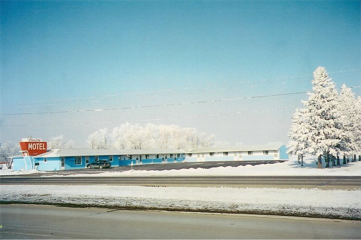 Star Lite Motel in Dilworth, Minnesota. Winter